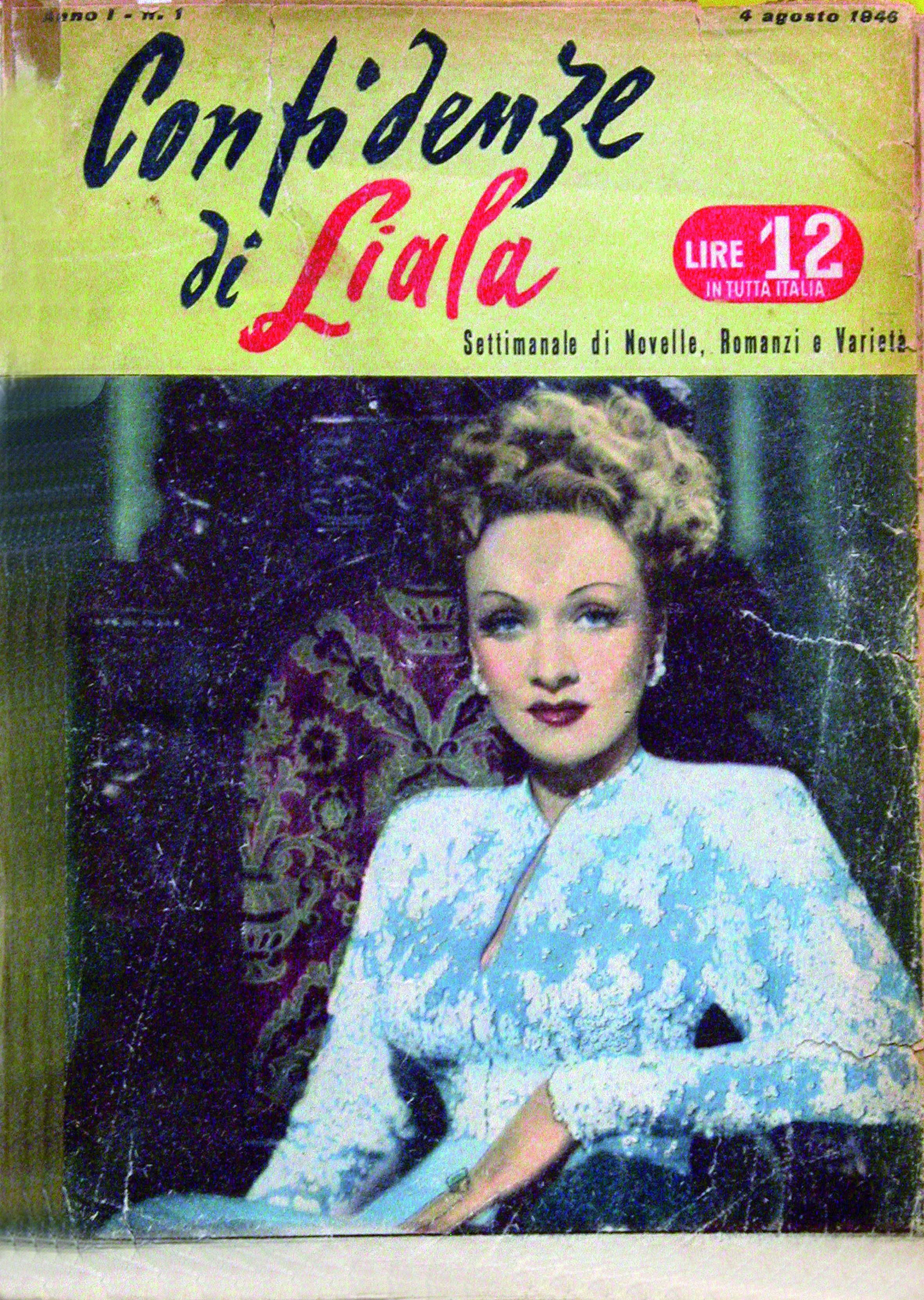 Cover of the 1st issue of the italian magazine Confidenze, August 4th, 1946, with a photo of Marlene Dietrich.[1]